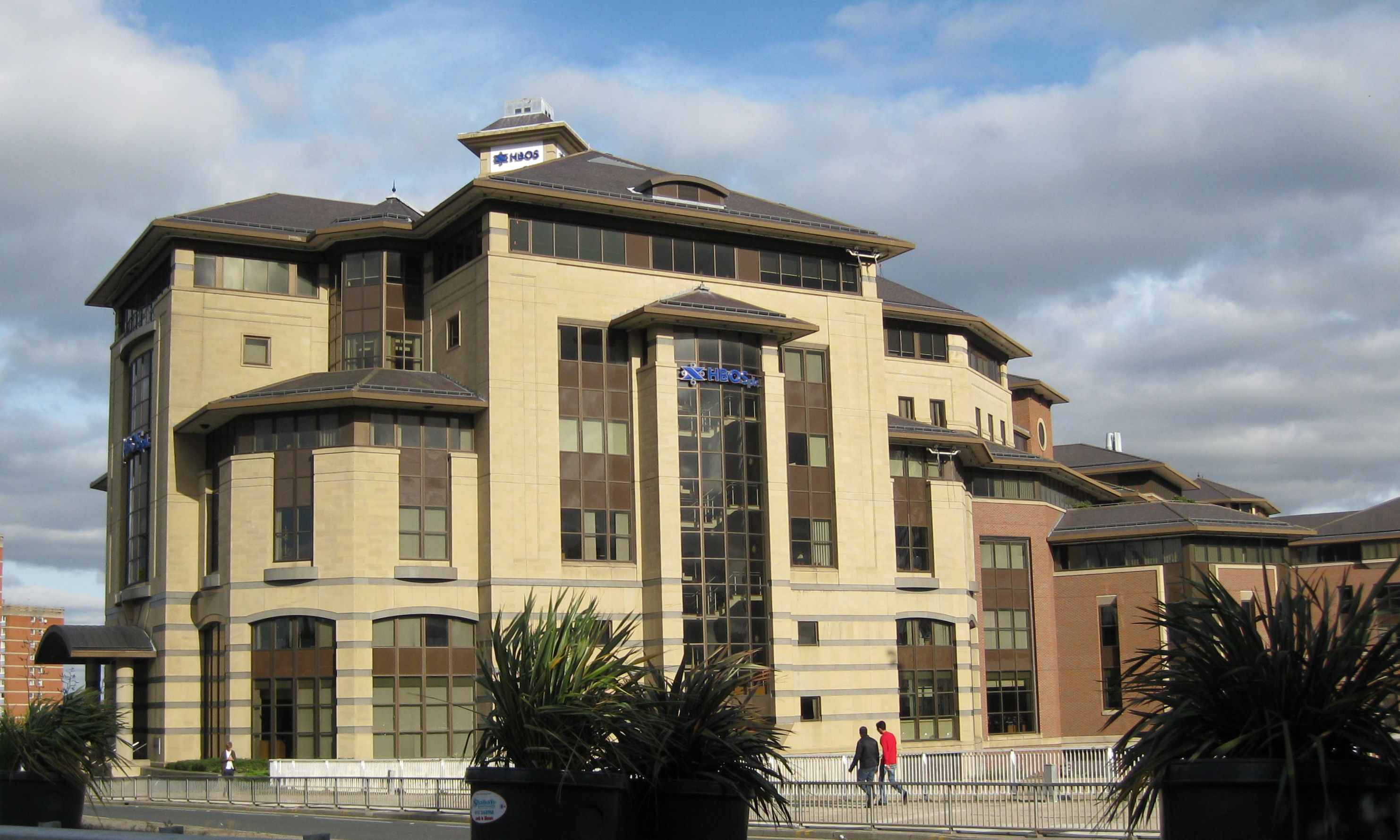 HBOS building, 1 Lovell Park, Leeds LS1 1NS. Viewed from Claypit Lane. Originally built for the Leeds Permanent Building Society and brick faced, an example of what was called Leeds-style architecture. Then became the Halifax building. Formerly had a digital clock.